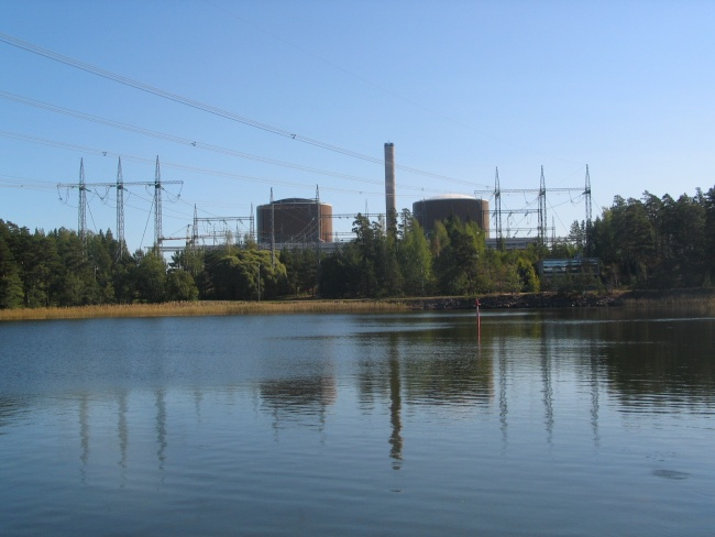 Loviisa nuclear power plant, Finland